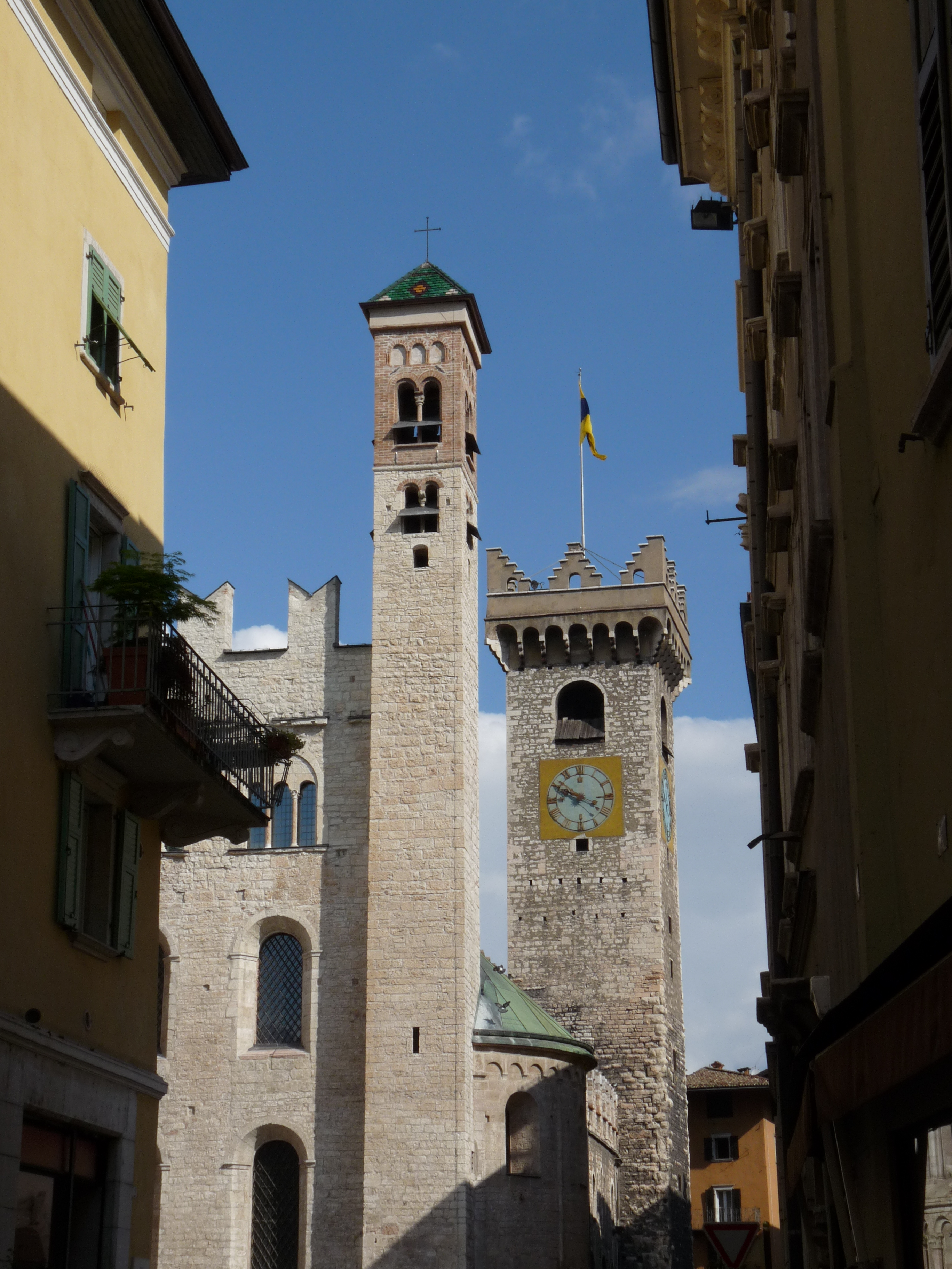 Trento (Italy): church tower of Saint Romedio (left) and the Torre Civica (Civic Tower, right) from behind the cathedral of Saint Vigilius (Duomo di Trento)